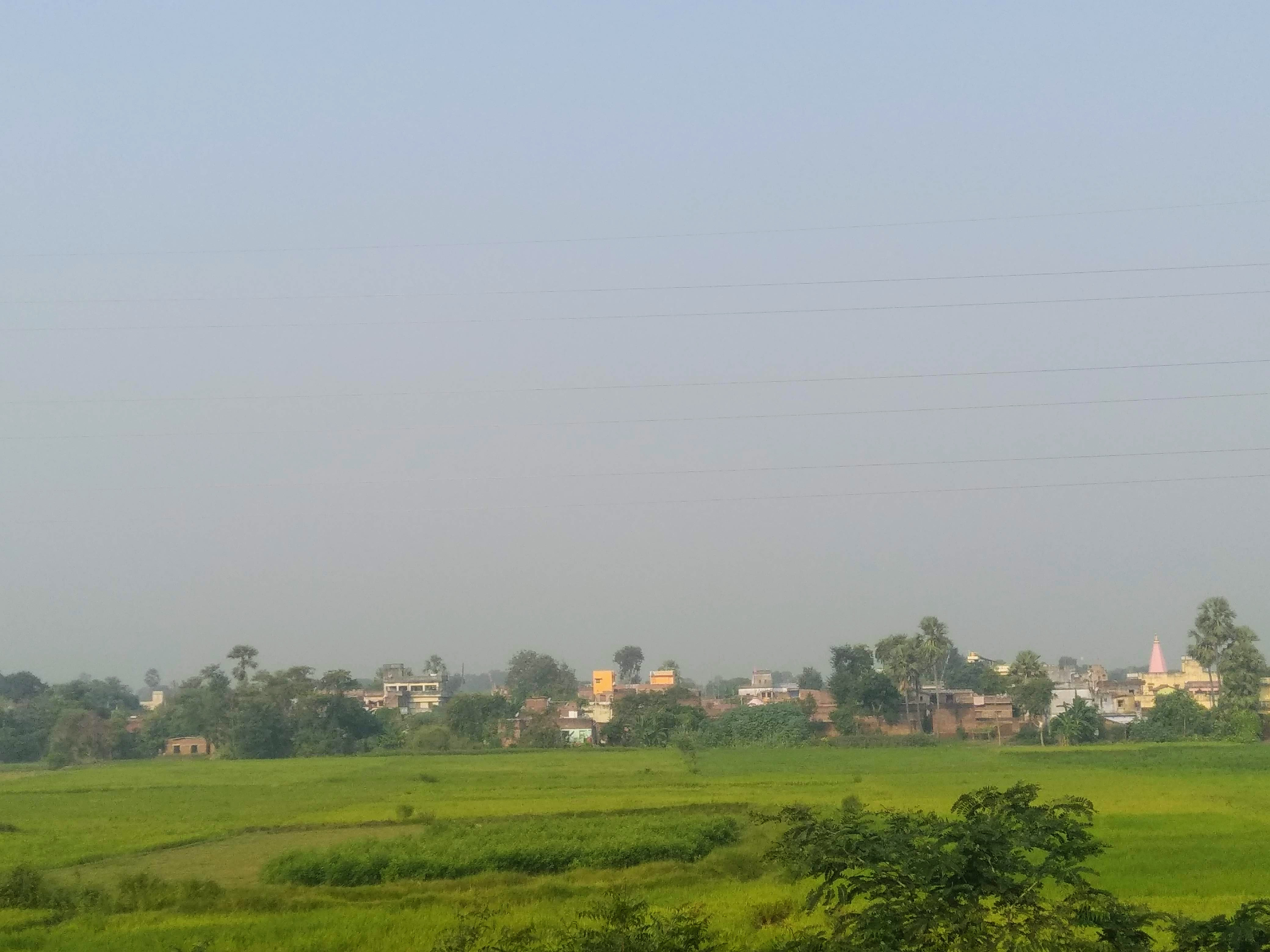 Kutri Village Panorma View